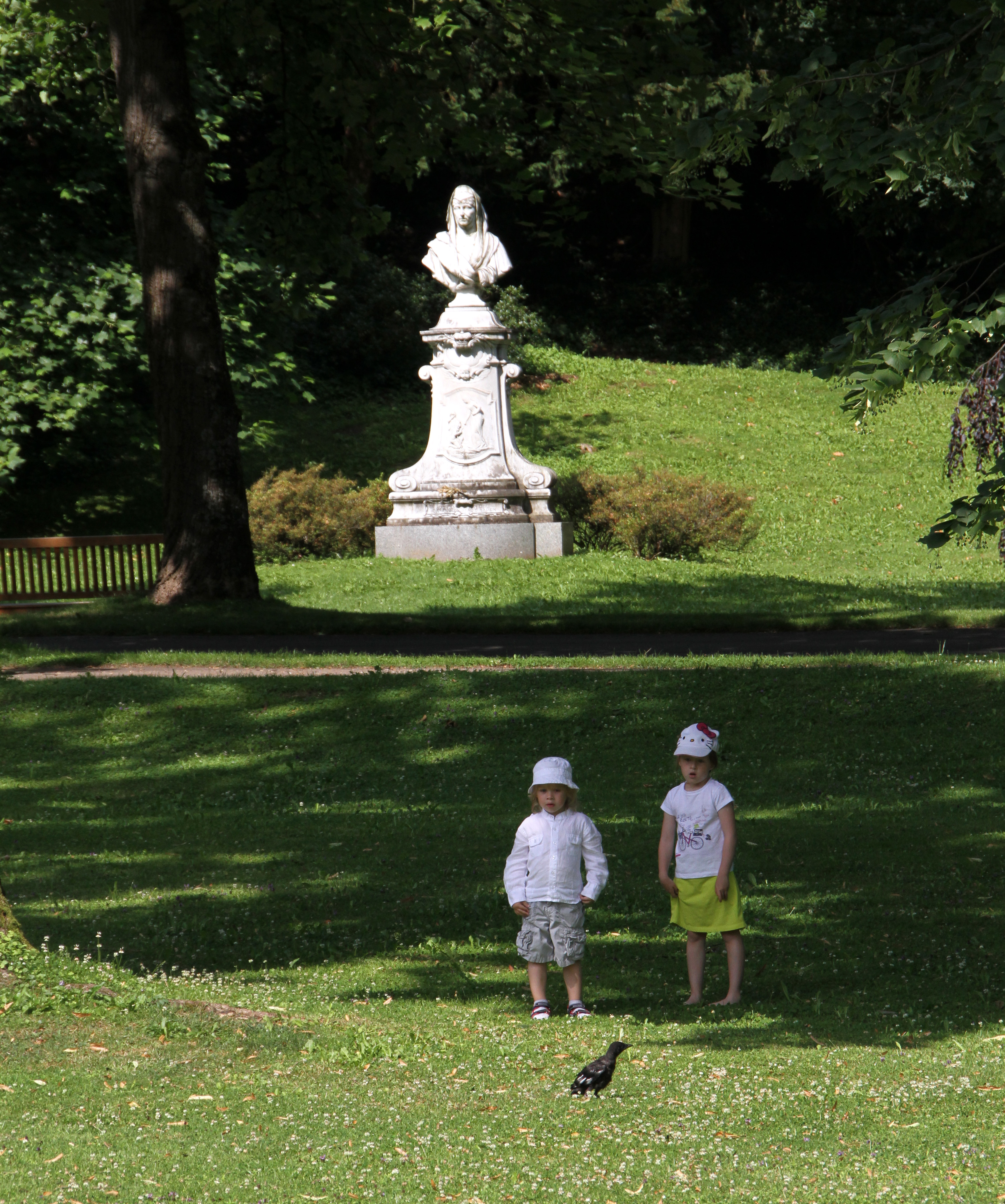 Bust of the Empress Augusta (1811-1890) by Joseph von Kopf (1827-1903) in the Lichtentaler Allee in Baden-Baden.